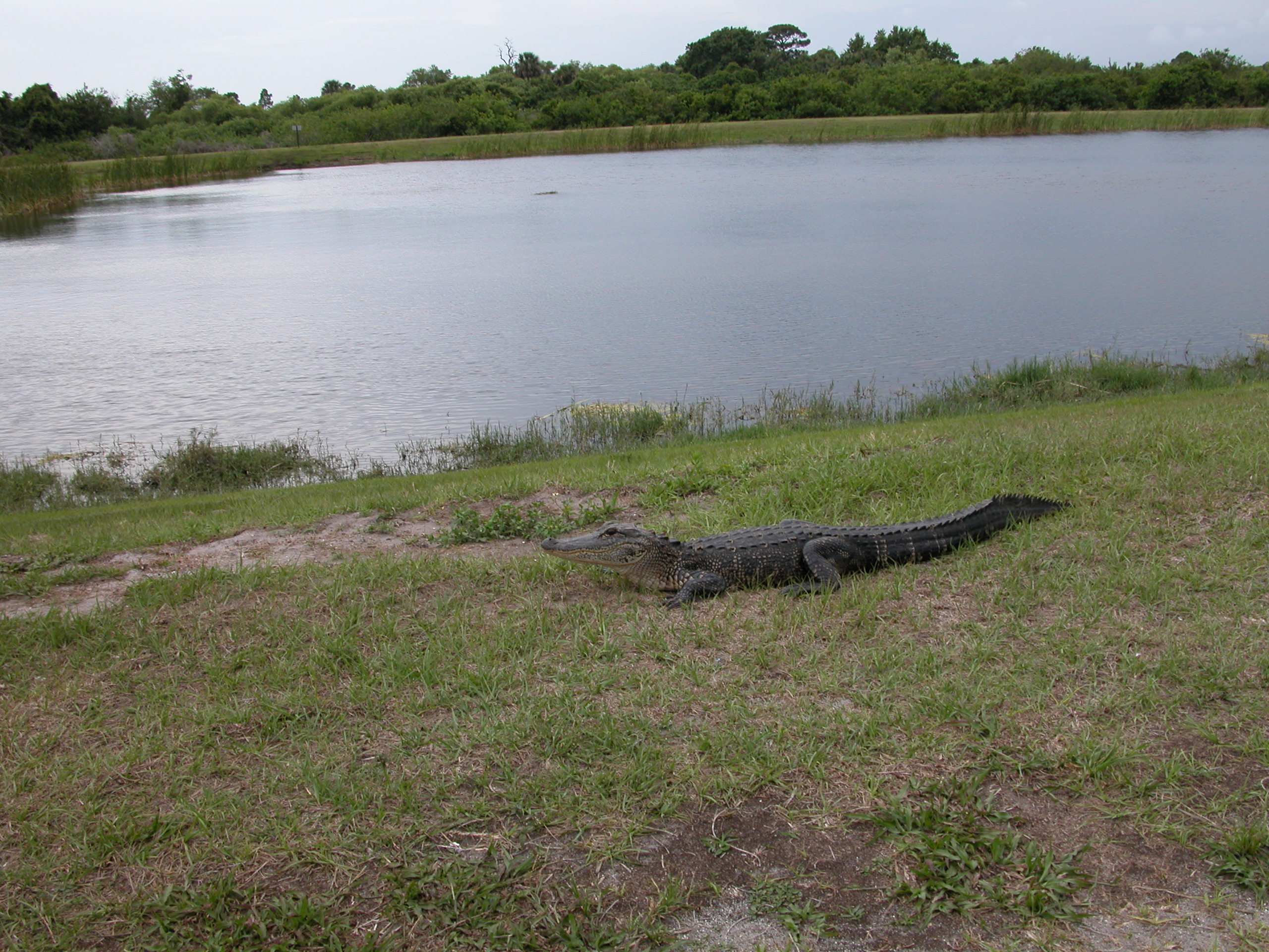 One of many neighborhood retention ponds in Merritt Island, Florida that has become infested with American Alligators (Alligator mississippiensis).